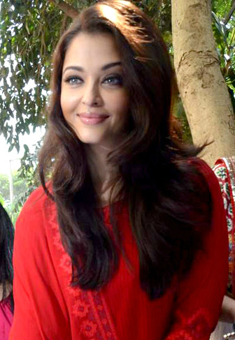 Aishwarya Rai Bachchan celebrating her 40th birthday, November 2013.